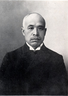 Moriharu Miura